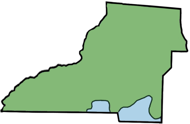 Map depicts Leon County, Florida for the Talbot terrace and shoreline which was deposited during a warming period (and after the Hazelhurst terrace and shoreline warming period) within the Early Pleistocene epoch. This map was crated by overlaying a USGS terrace and shoreline map over an accurate Leon County matching template.